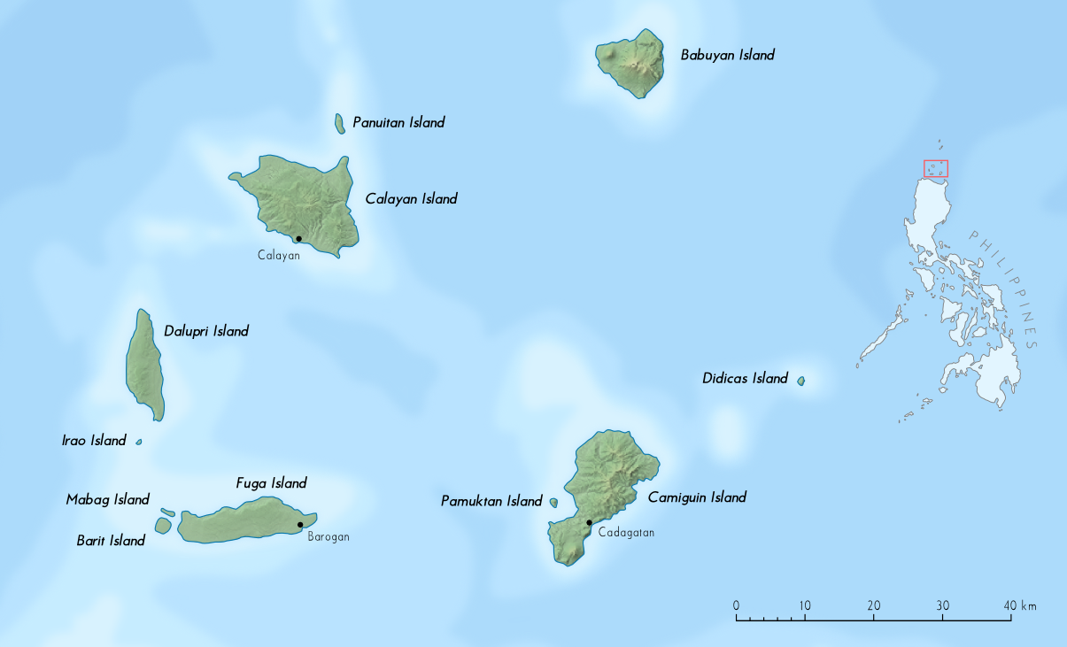 Babuyan Islands, archipelago located in the Luzon Strait north of Luzon island in the Philippines. Used map data: NASA Shuttle Radar Topography Mission digital topographic data (SRTM3 2.1) (Public Domain)